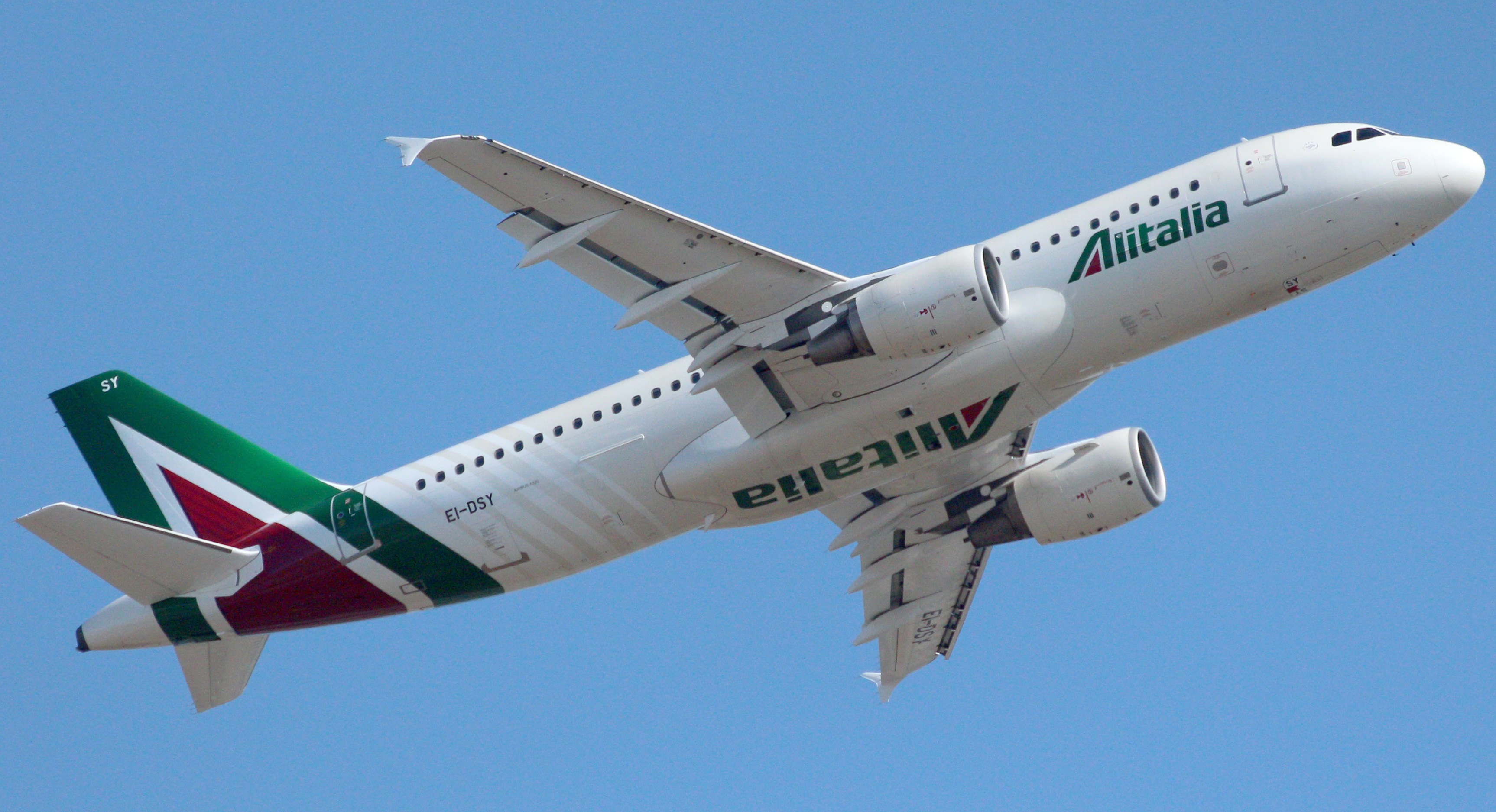 EI-DSY - Airbus A320-216 - Alitalia Taken at Rome Fiumicino Airport (FCO/LIRF)